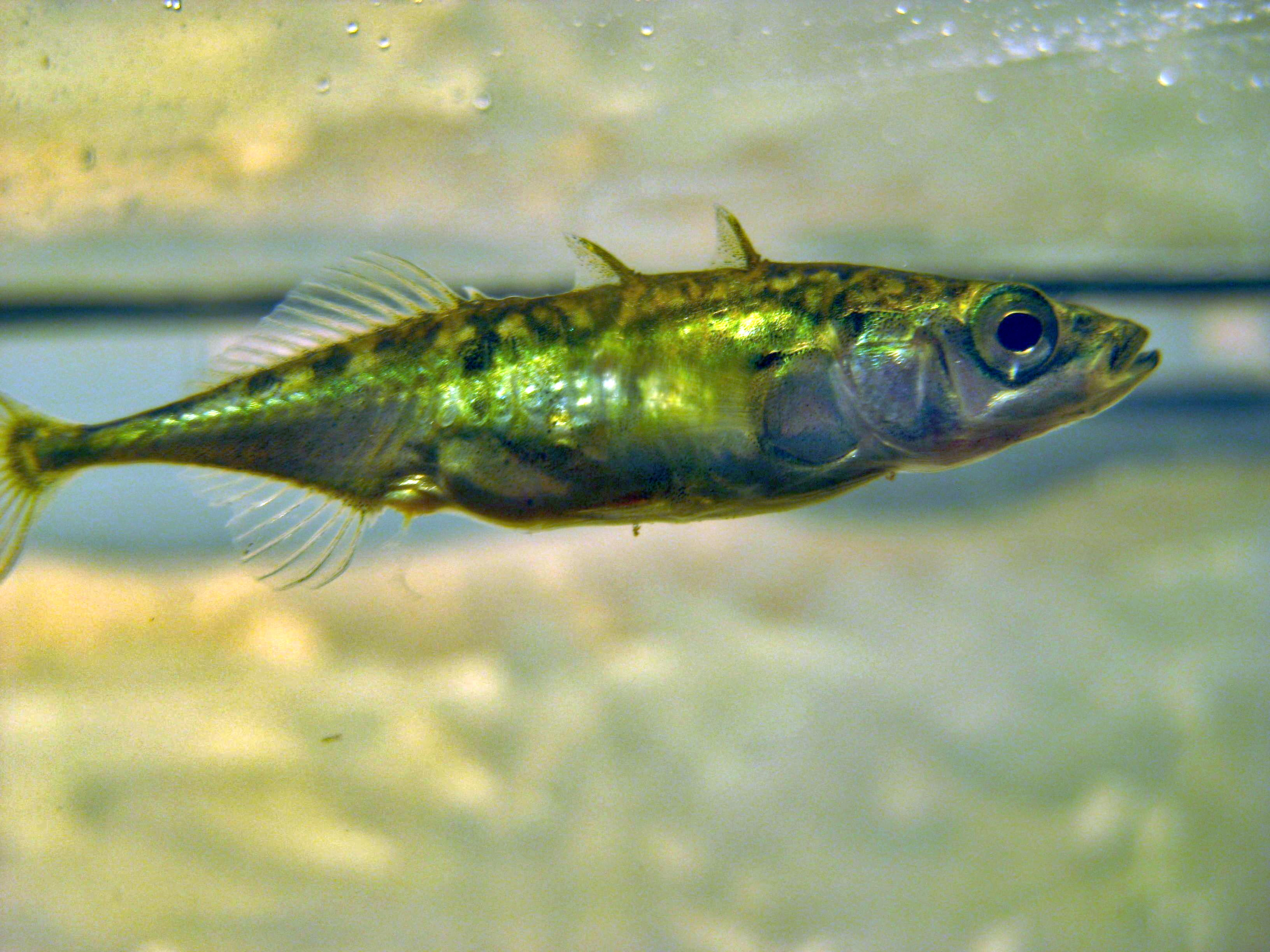 Three-spine stickleback (Gasterosteus aculeatus) at the Fluvarium, St. John's, NL.